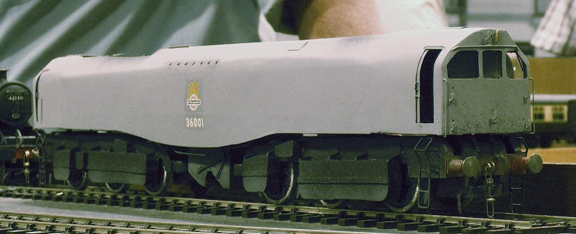 7mm scale model of SR Leader class 36001. Corrected version of 7mm SR Leader class.jpg